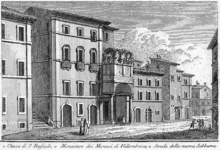 1) S. Prassede; 2) Strada della Nuova Subburra